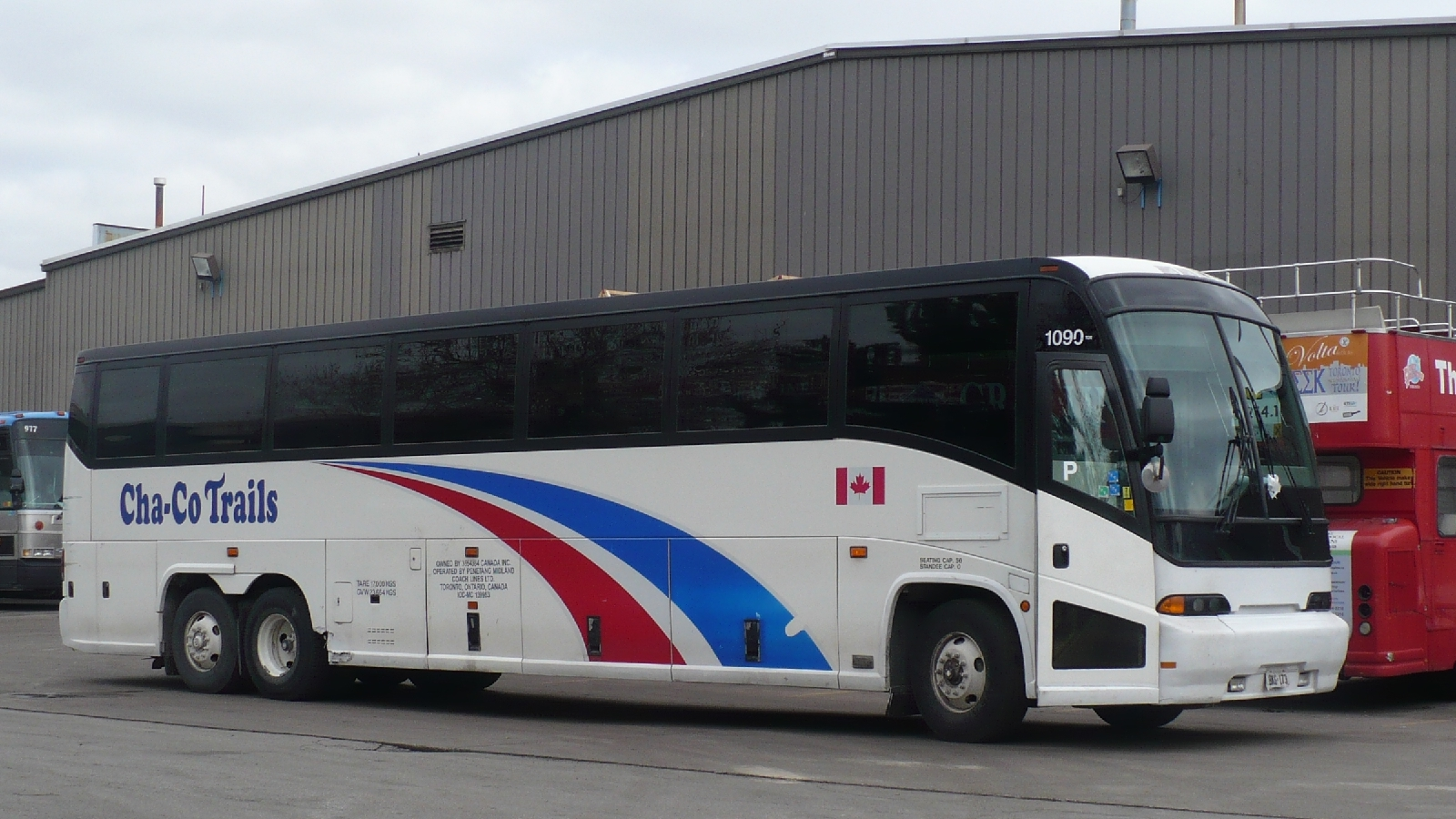 PMCL operated Cha-Co Trails bus in the parent Greyhound Canada stipes